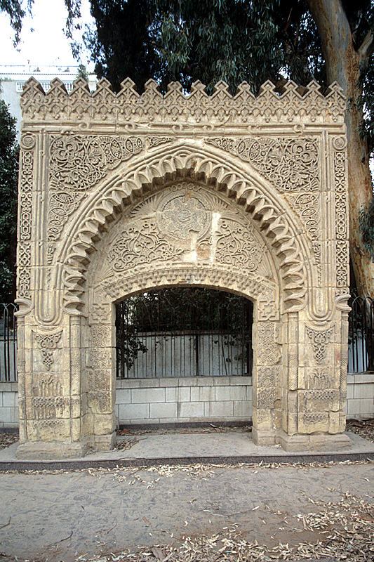 Gate of the house of Suleiman Pasha el-Faransawi, Lycée de Maadi, el-Maadi, Egypt